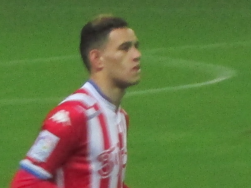 Antonio Sanabria, Paraguayan footballer for Sporting de Gijón